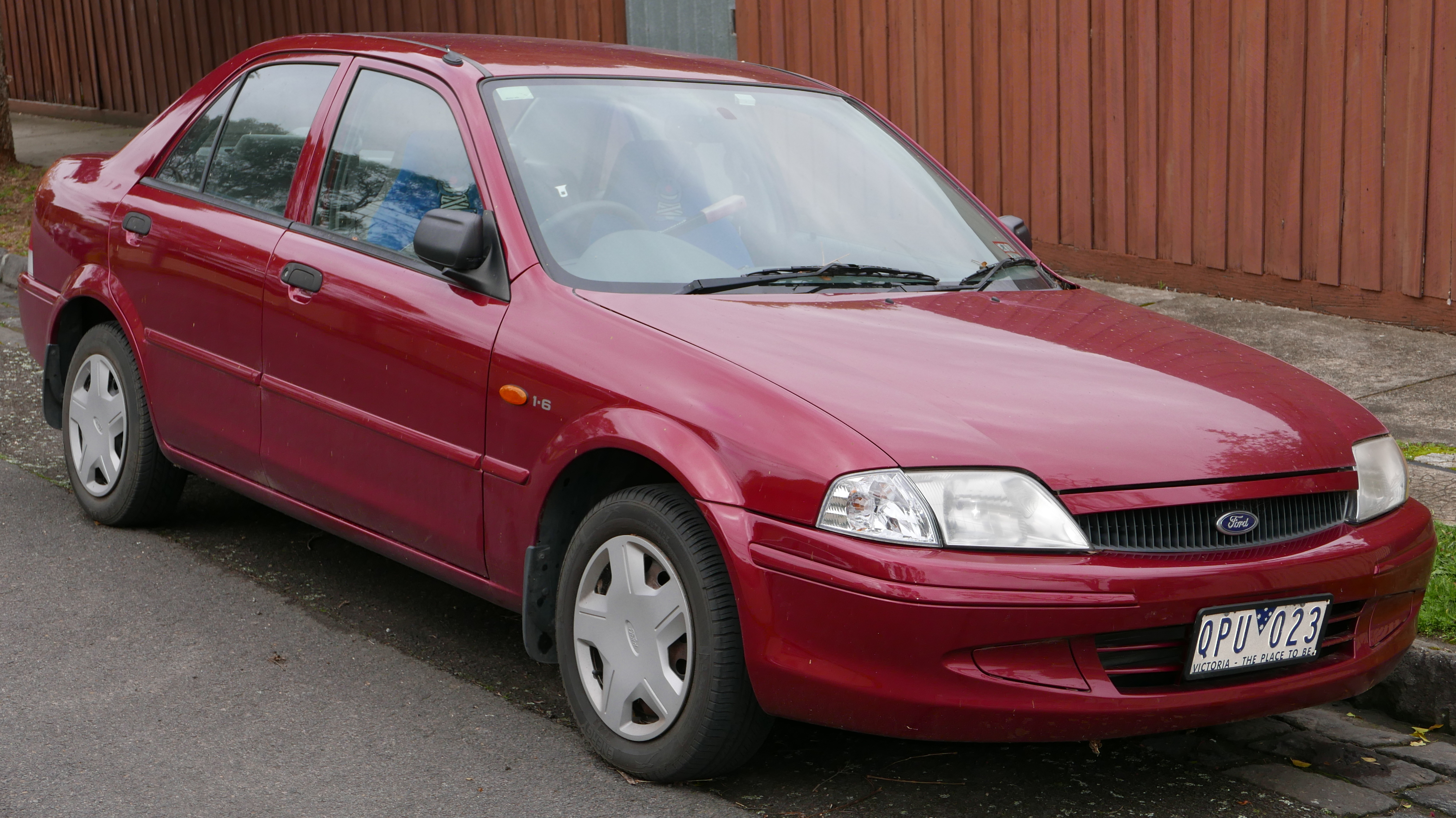 2000 Ford Laser (KN) LXi sedan. Photographed in Alphington, Victoria, Australia. Vehicle registration enquiry resultsJurisdictionVictoriaRegistrationQPU023Chassis codeJC0AAASGNLYY36750Engine codeZM451585Compliance date2000-12Year of manufacture2001 (not a typo)